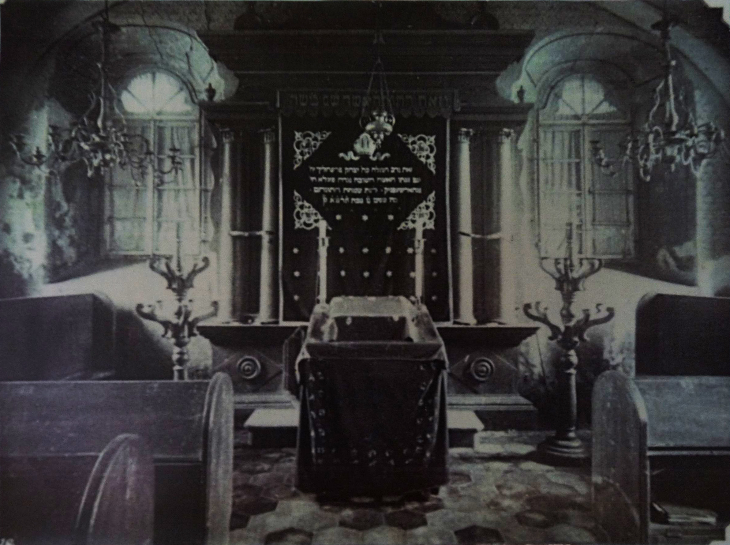 Synagogue in the town of Pacov, Pelhřimov District, Czech Republic - a copy of a photograph taken before WWII, displayed in the ceremonial hall of the Jewish cemetery in Pacov.